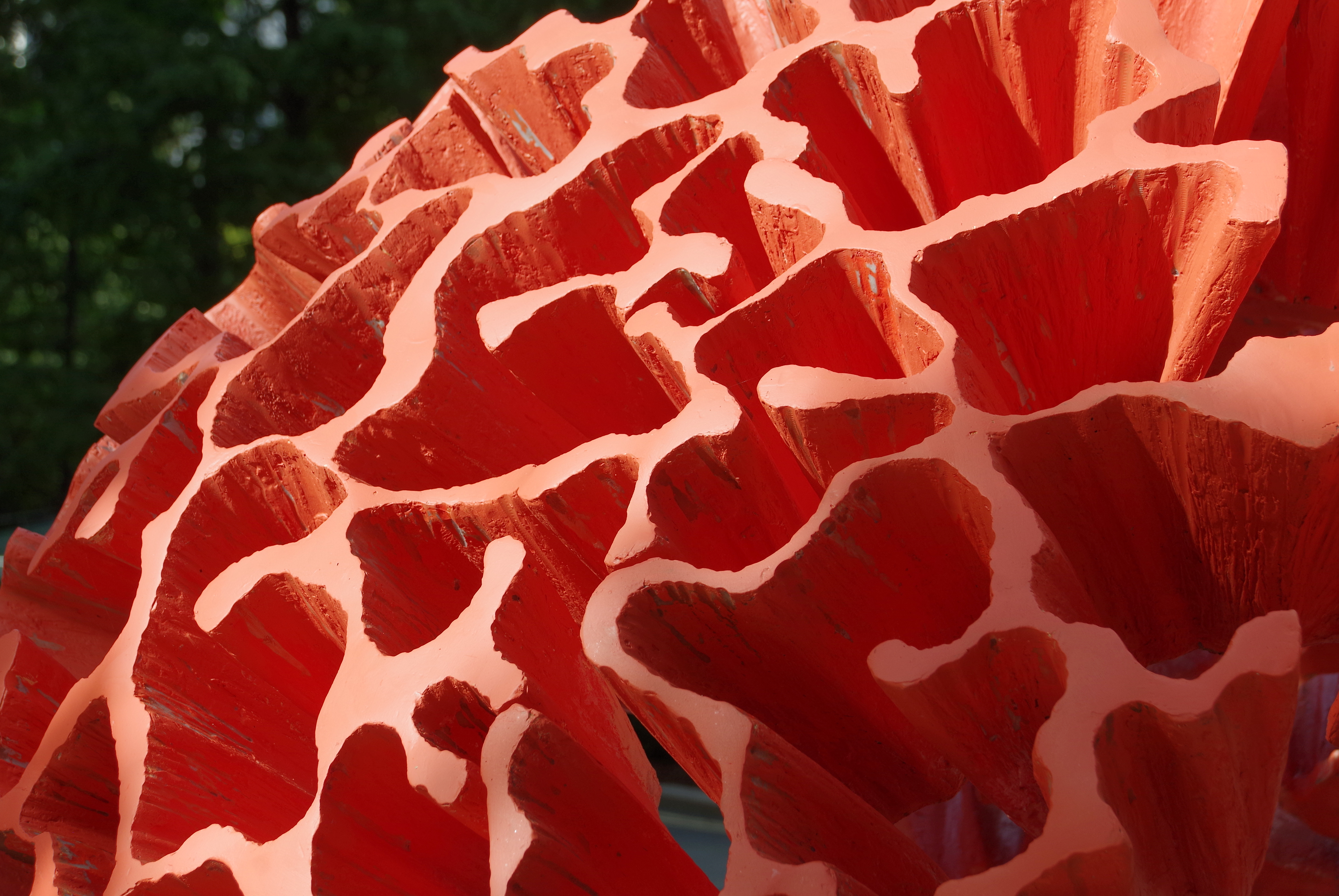 Matt Buck. IMGP7380 "Coquino Coral" by Yvonne Domenge, strange artwork in Canary Wharf, London.